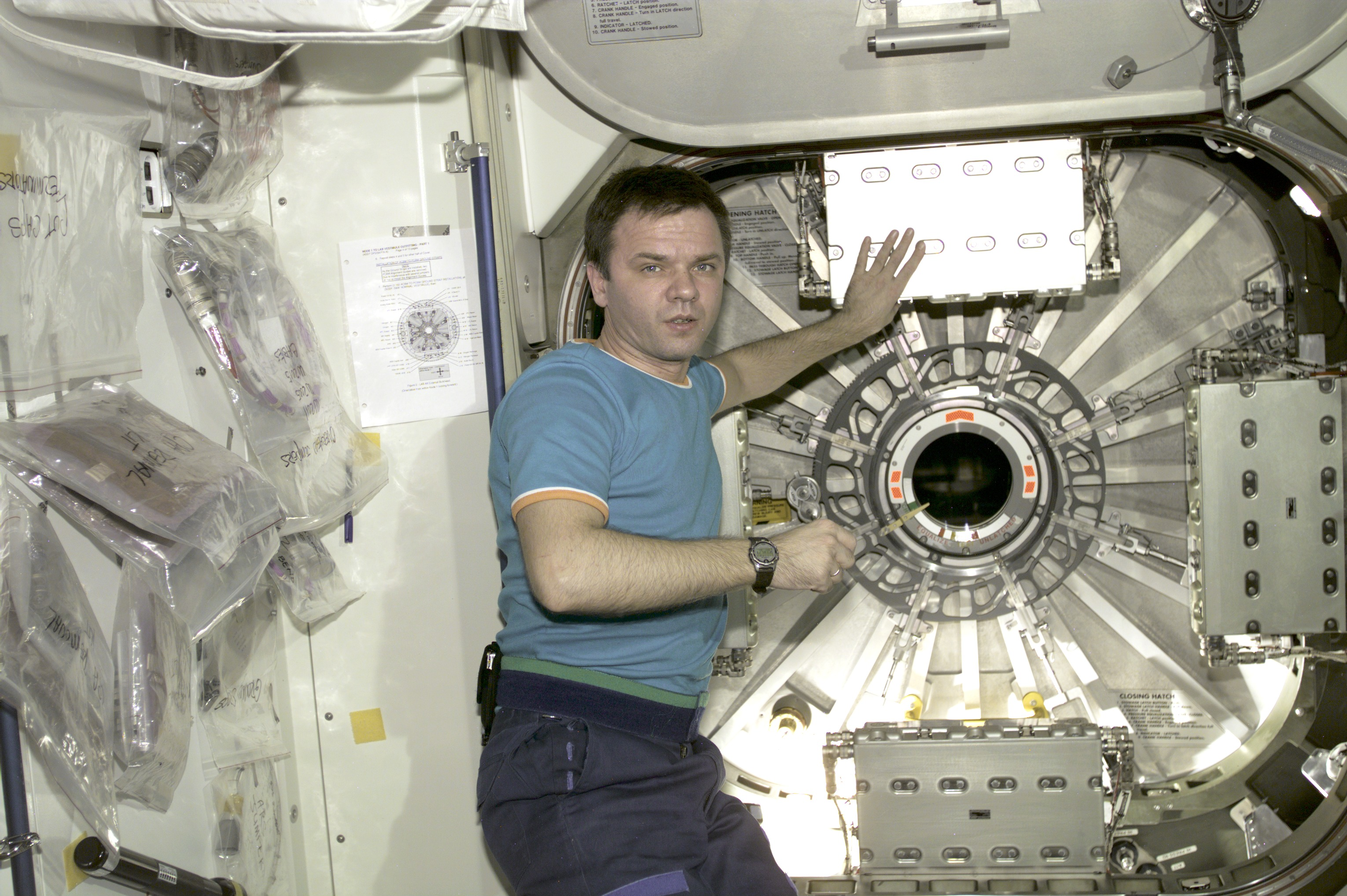 Cosmonaut Yuri P. Gidzenko, Expedition One Soyuz commander, stands near the hatch leading from the Unity node into the newly attached Destiny laboratory aboard the International Space Station (ISS). The picture was recorded with a digital still camera on the day the hatch was initially opened.